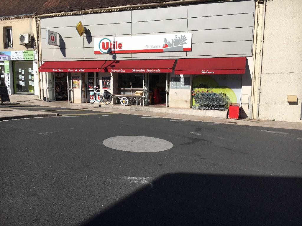 Utile Branch in Gardonne in South West France